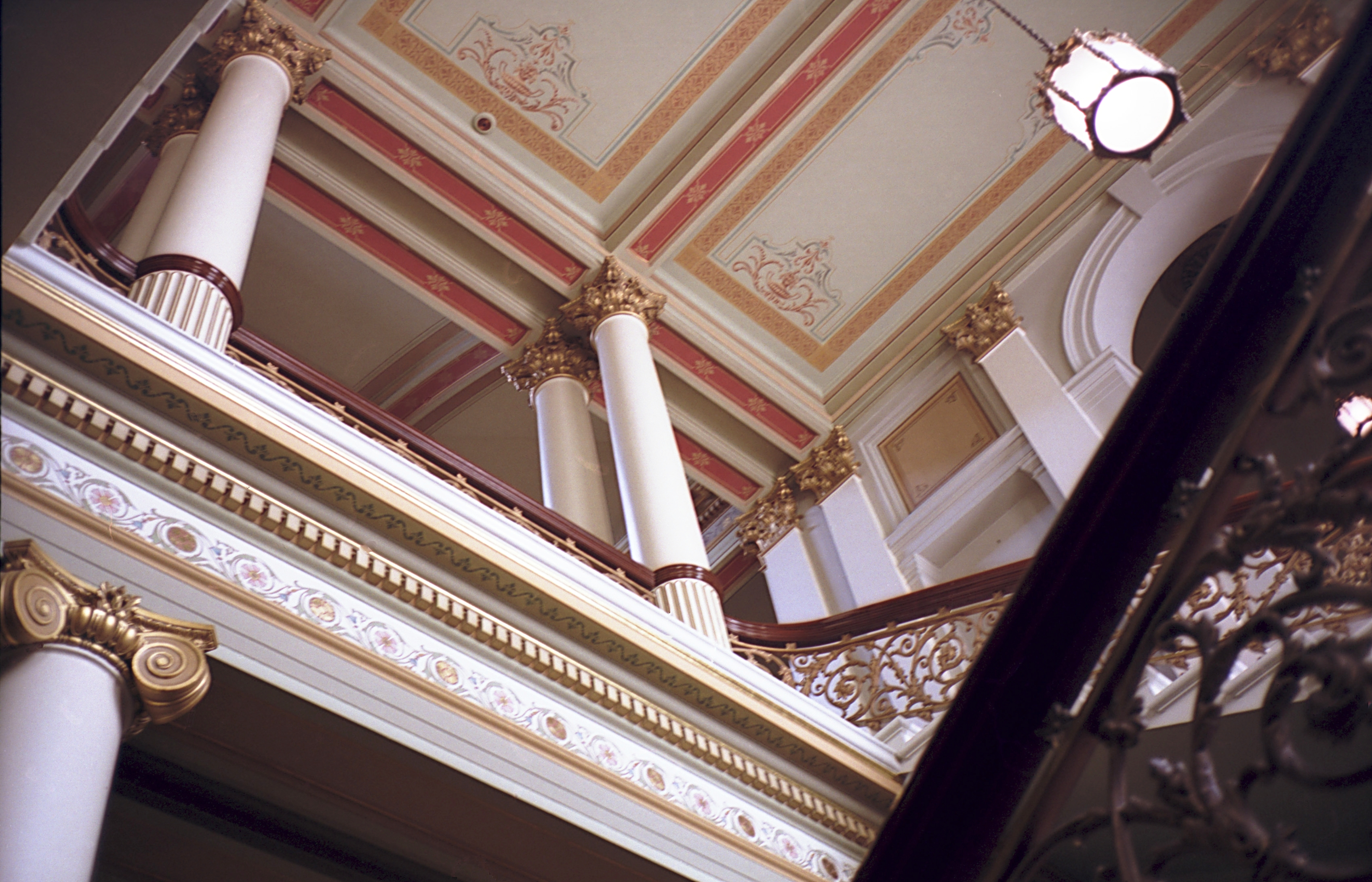 Interior staircase (detail), Government House, Melbourne.